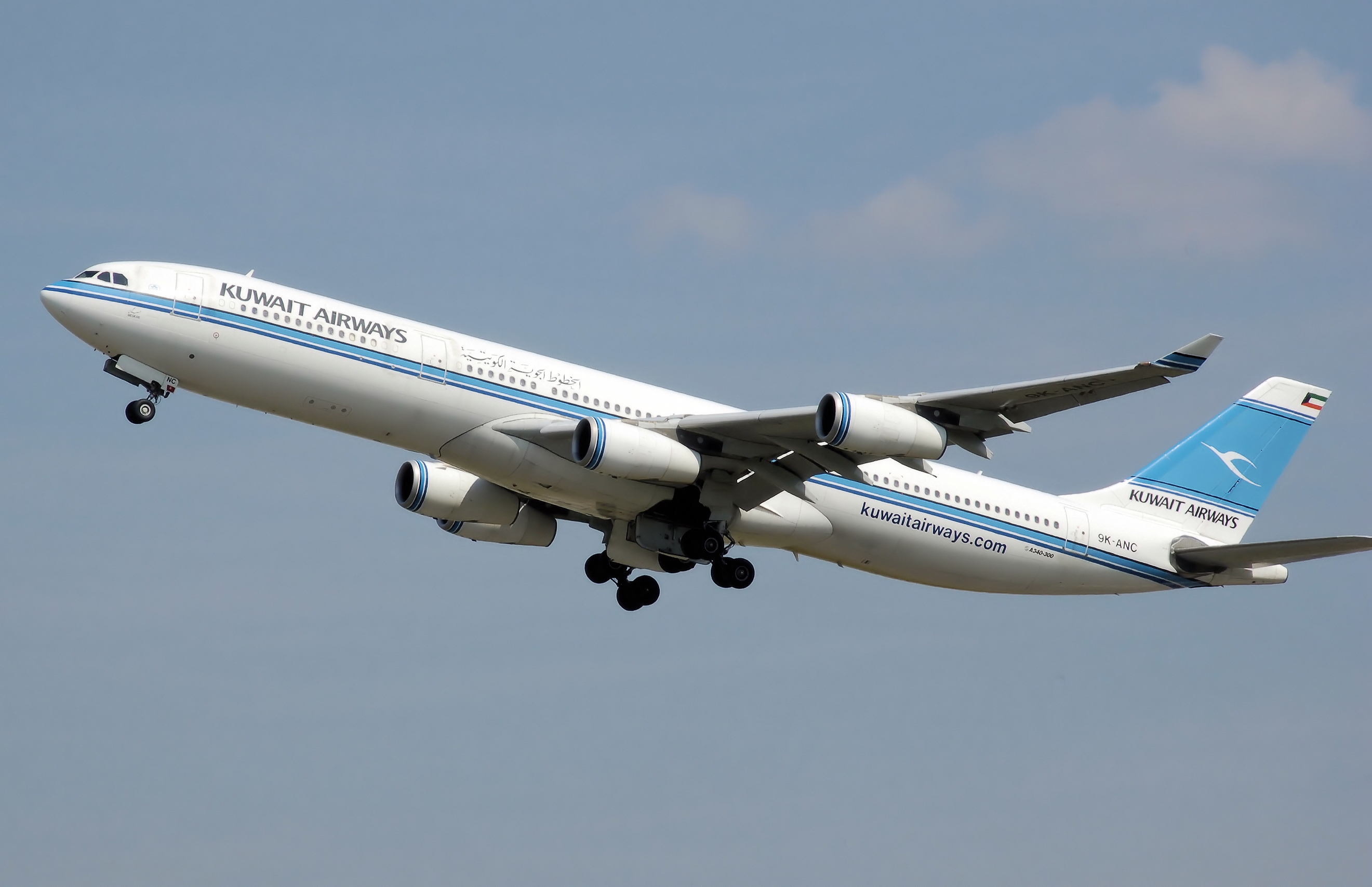 Kuwait Airways Airbus A340-300 (9K-ANC) takes off from London Heathrow Airport. The nosewheel is beginning to retract.